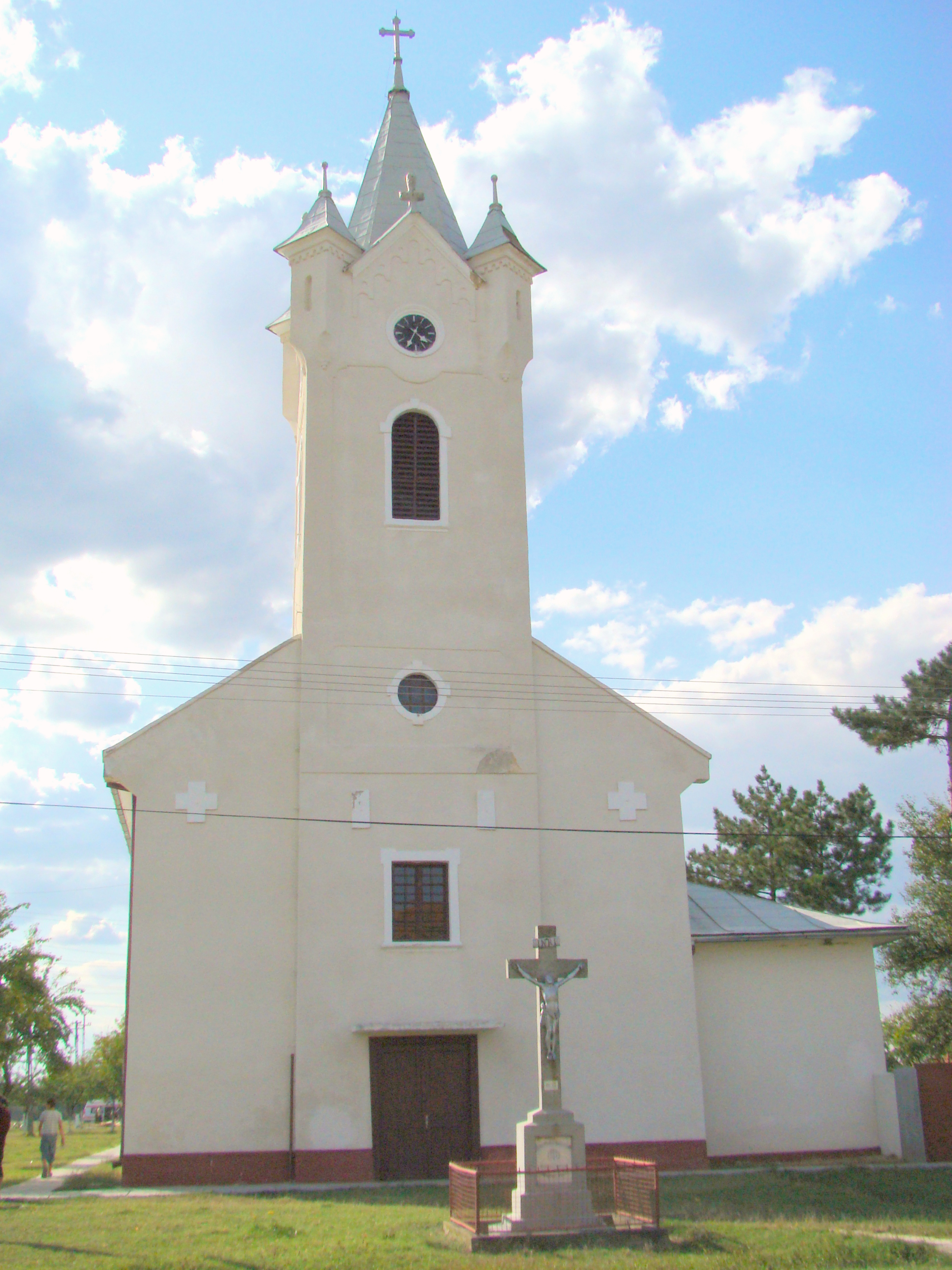 Roman Catholic Church in Știuca (Ebendorf), Timiș County (Banat), Romania